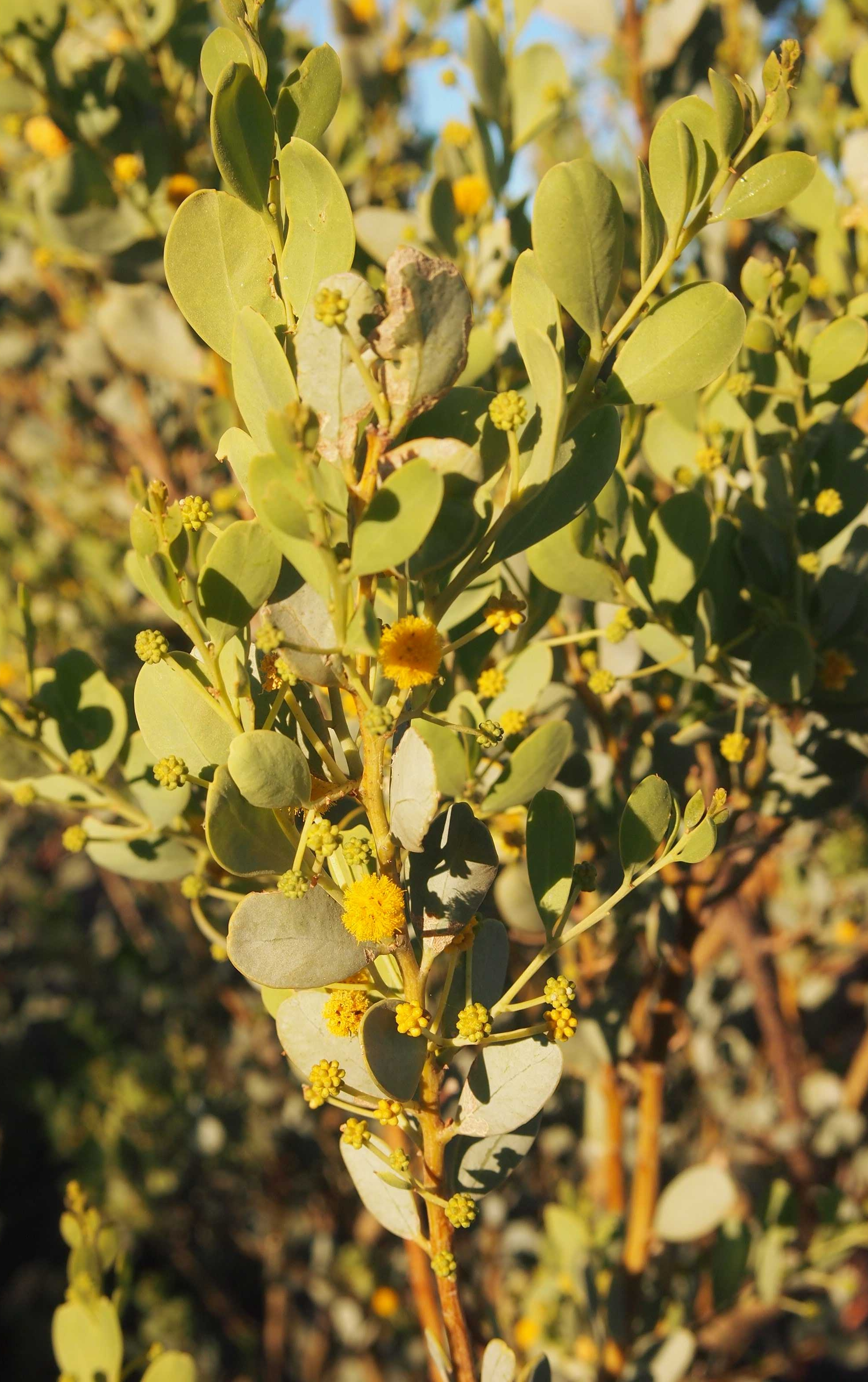 Acacia bivenosa foliage and flowers